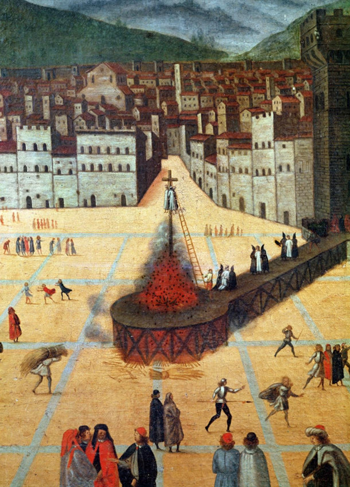 Painting of Savonarola's execution in the Piazza della Signoria.